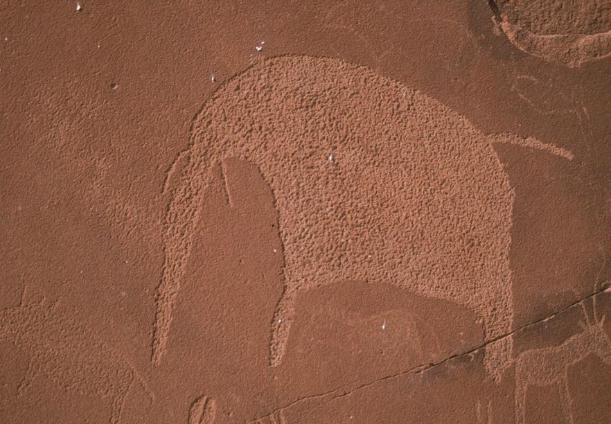 Elephant figure.